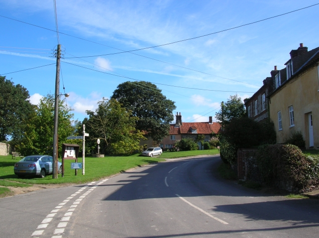 Village green - Great Walsingham Just out of shot to the right is a church. This road is called Scarborough Road, behind leads to Little Walsingham, ahead to Wighton. The left takes you to the B1105.